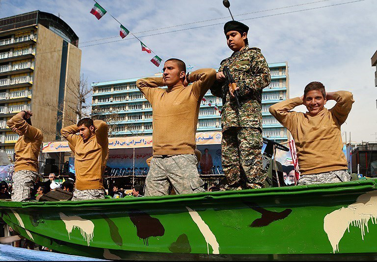 Remaking the Scene of Arresting American Soldiers on 22 february 2016 Demonstration in Tehran. Two United States Navy riverine command boats were seized by Iran's Islamic Revolutionary Guard Corps (IRGC) Navy after they entered Iranian territory near Iran's Farsi Island in Persian Gulf. The 10 sailors were detained for 15 hours